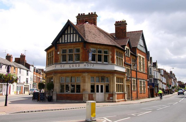 The Cape Of Good Hope pub, The Plain, Oxford: designed by Harry Drinkwater for Morrell's Brewery and built in 1892